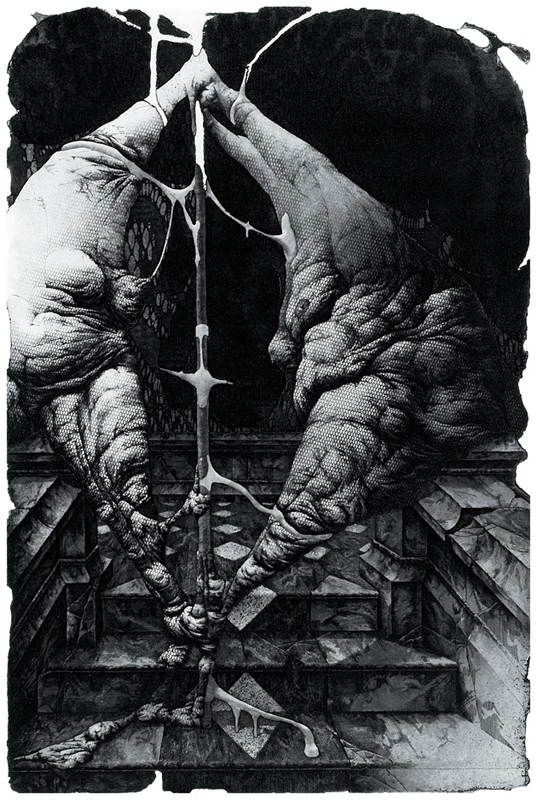 Pair. Intaglio. Zinc plate 49.5х32,5 cm